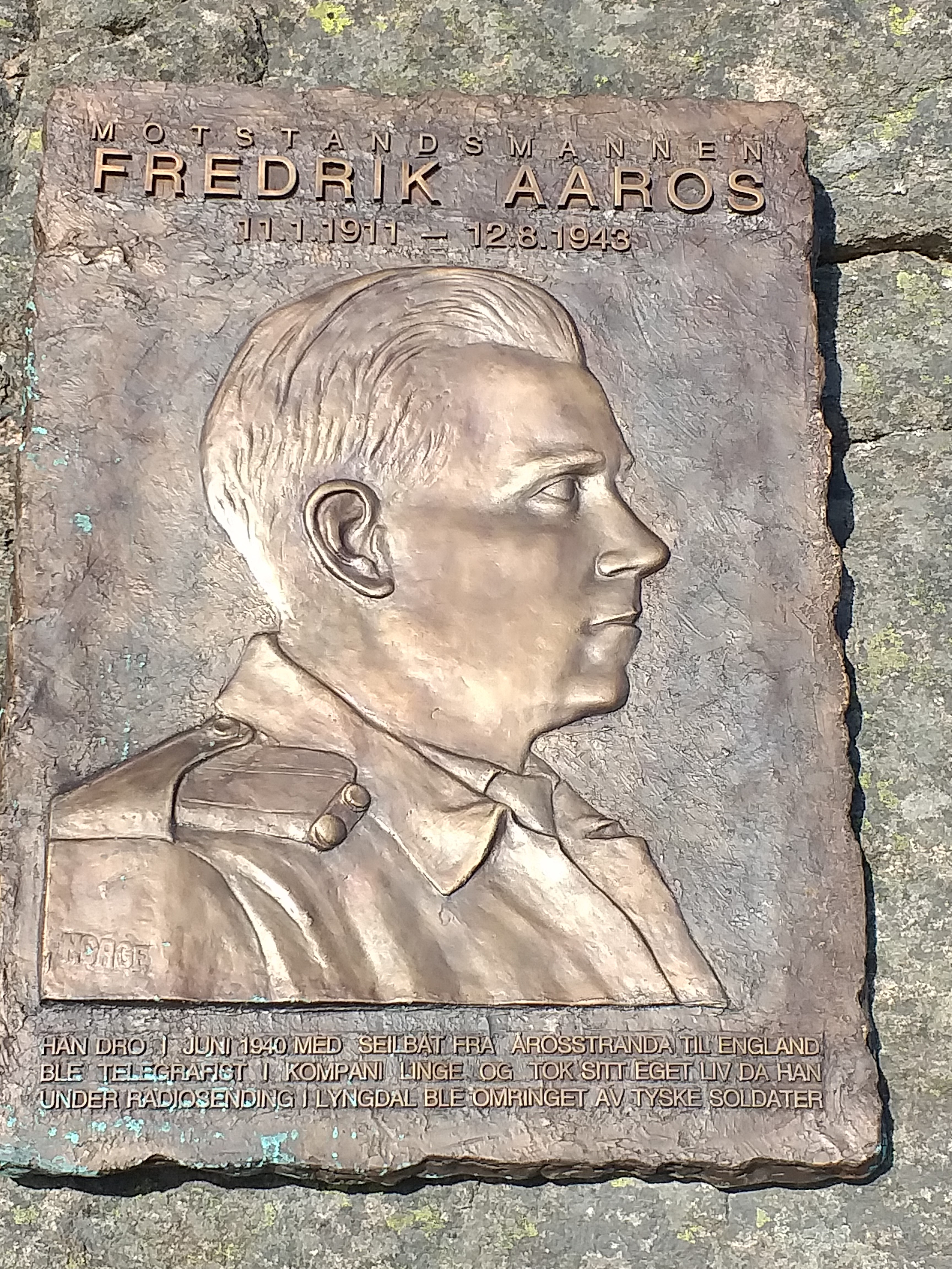 Memorial bronze relief